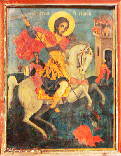 Icon of Saint George in the church in village Izvor, Serbia